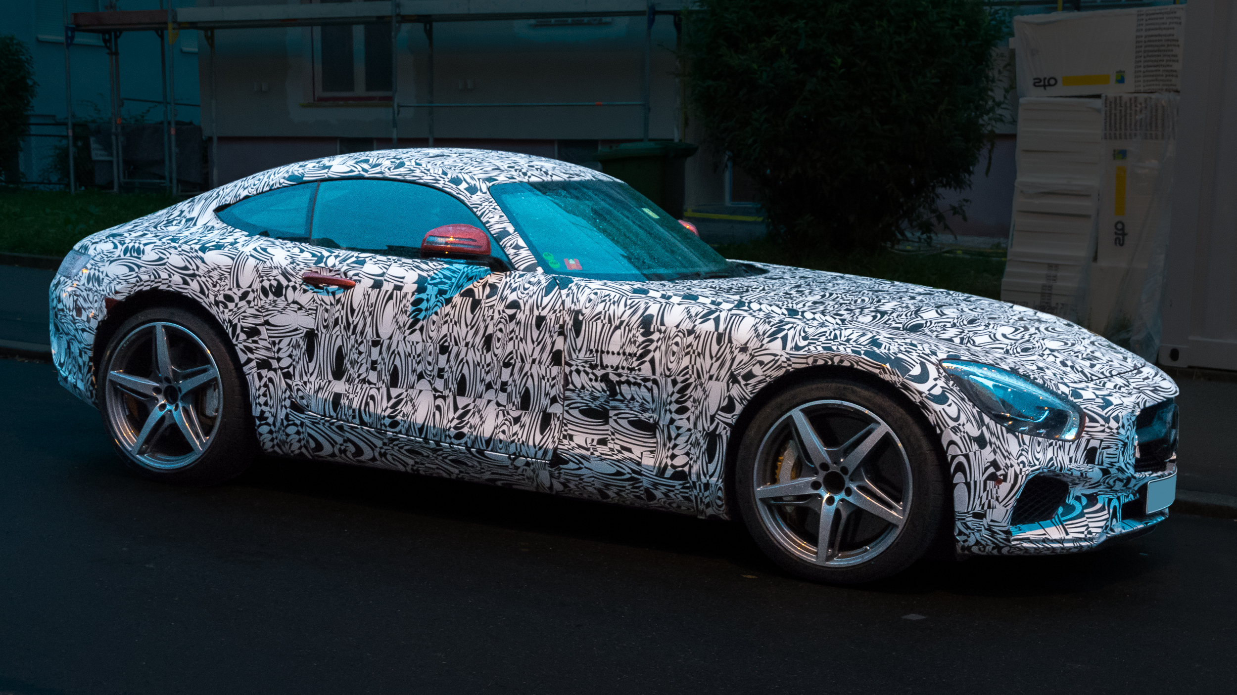 Spied photo of the Mercedes-AMG GT C190